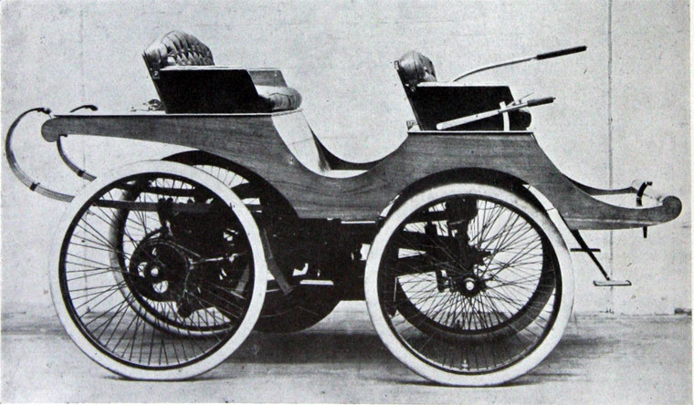 The first four wheel car to be built in Britain.